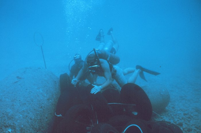 Tires being placed in an array to determine their effectiveness as habitat for fish. Image ID: reef0153, NOAA's Coral Kingdom Collection Location: Pokai Bay, Oahu Photo Date: July 1969 Photographer: Dr. James P. McVey, NOAA Sea Grant Program